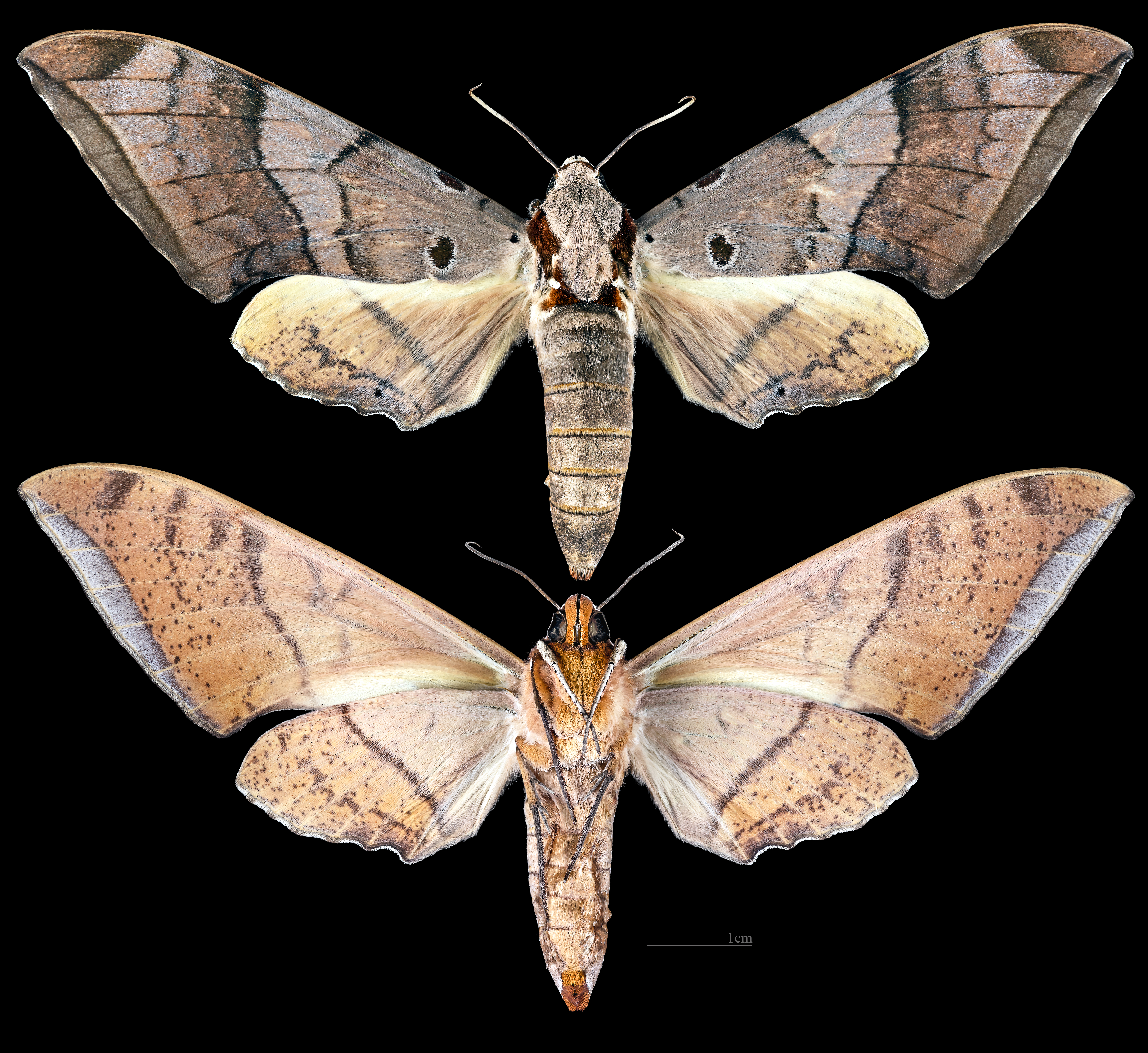 Ambulyx cyclasticta - Two views of same specimen Collection of the Mathematician Laurent Schwartz